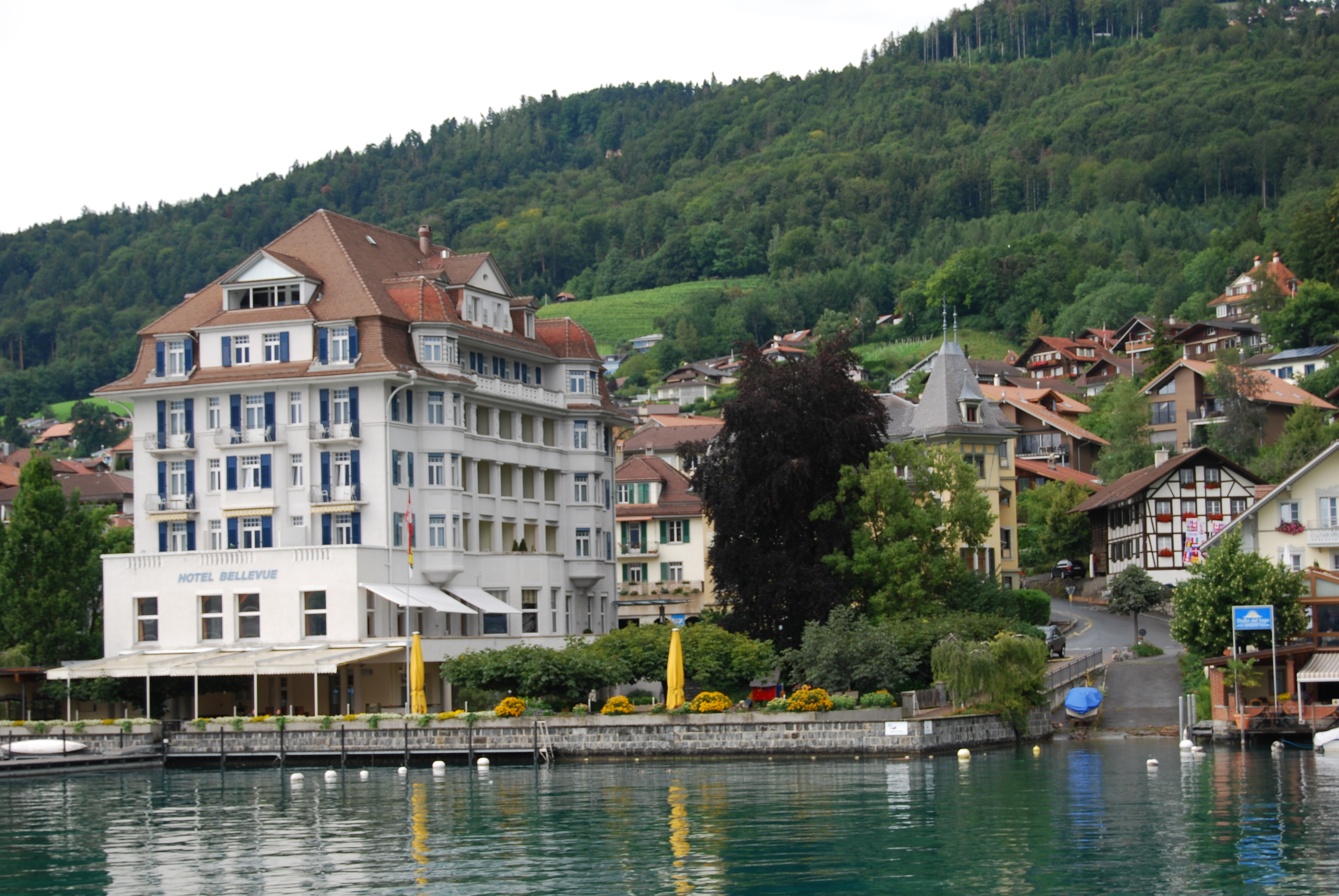 Hotel Bellevue at Hilterfingen, canton of Bern, Switzerland